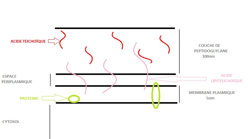 gram +